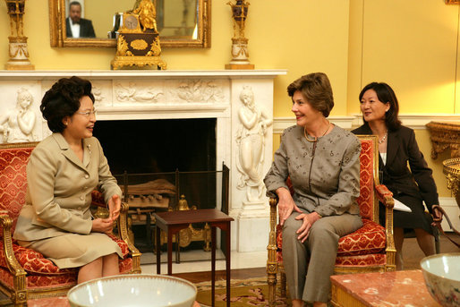 Kwon Yang-sook (wife of Roh Moo-hyun, 16th president of South Korea, with Laura Bush, wife of George W. Bush, 43rd president of the US. Korean: 로라 부시와 대화 중인 권양숙. 2006년 9월 14일 백악관.